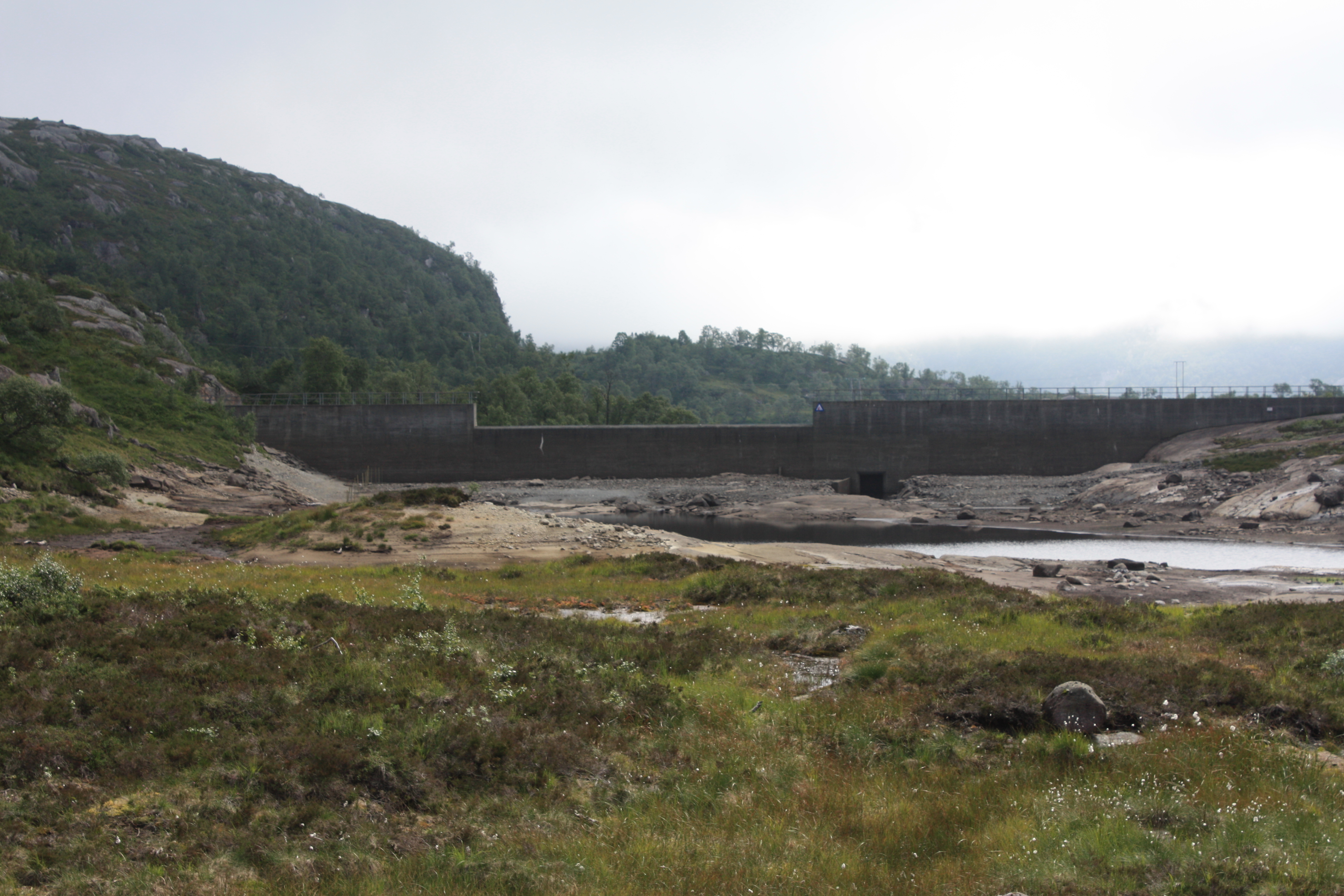 Dam by Sandsavatnet